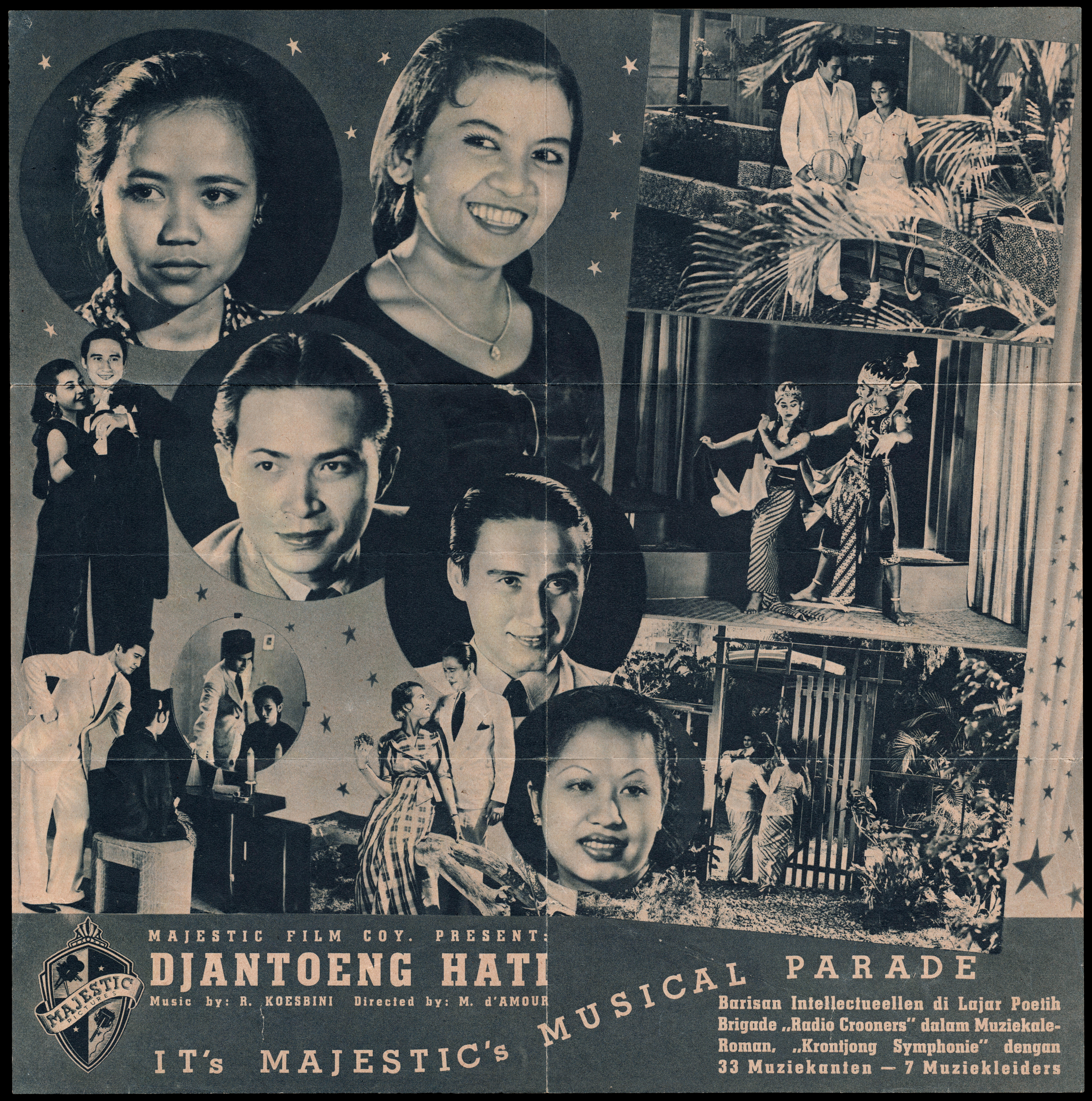 Film flyer for Djantoeng Hati